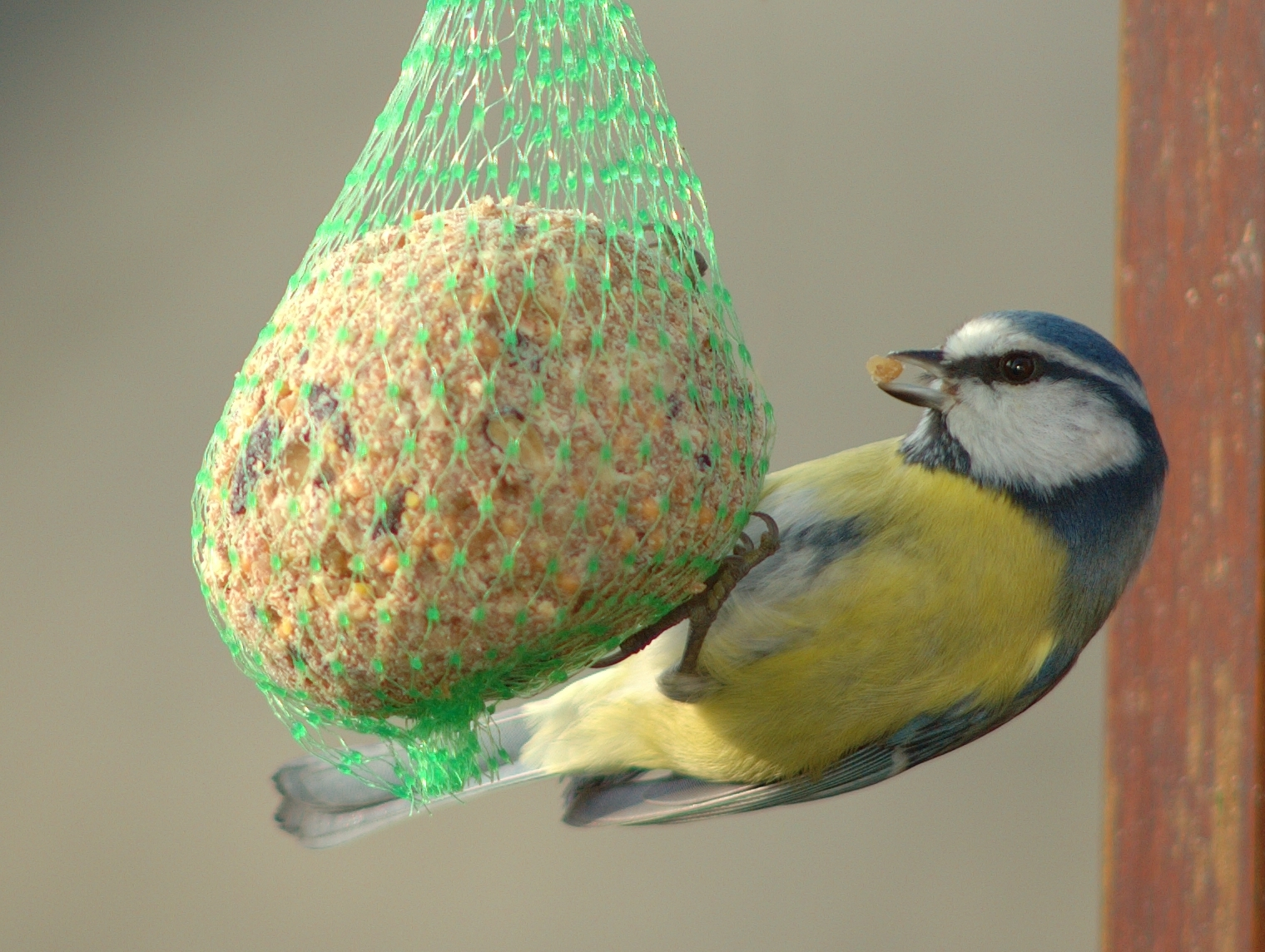 Blue Tit Cyanistes caeruleus (often still Parus caeruleus) in Belgium (Hamois).